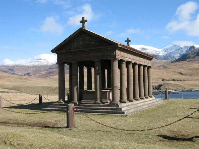 Mausoleum at Harris with Rum Cullins in background